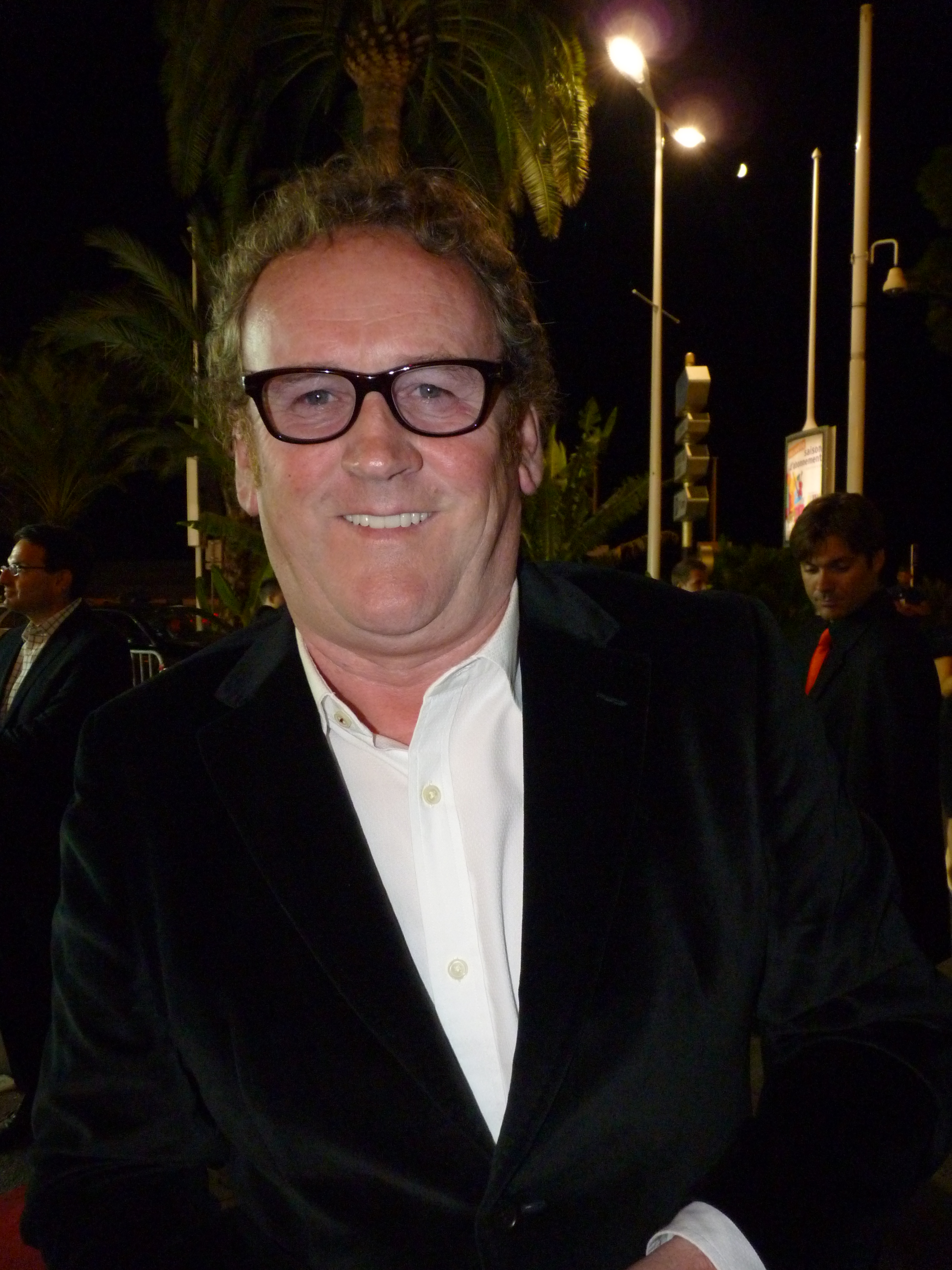 Colm Meaney at the 2011 MIPCOM, in Cannes.